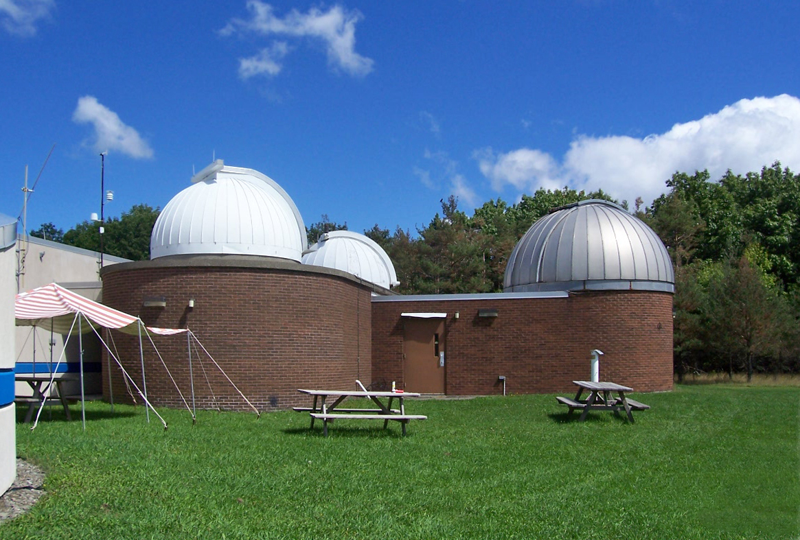 Picture taken by myself, T.W. Keator 2005